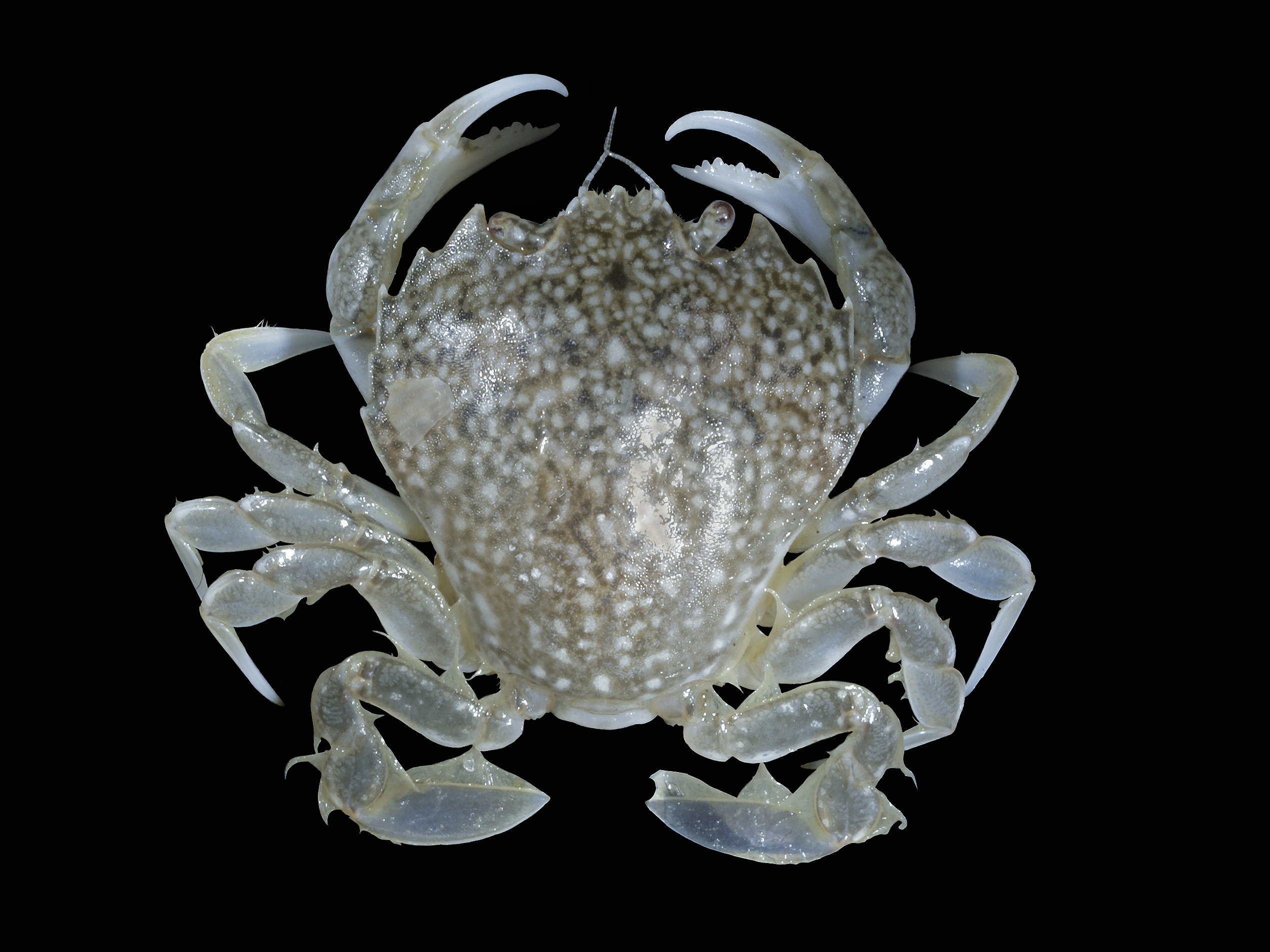 Pennant's swimming crab from the Belgian coastal waters.